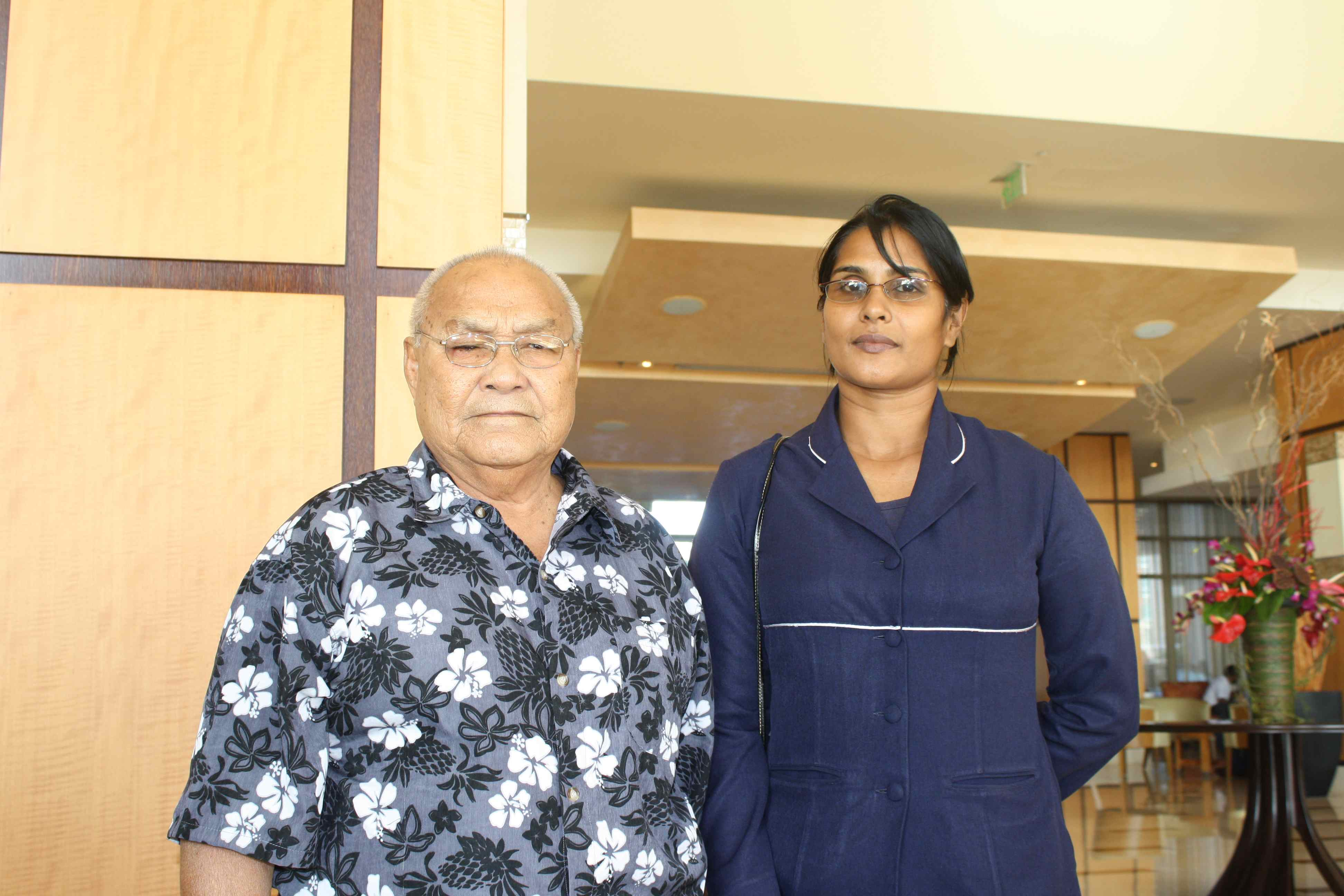 Rt Hon Sir Kamuta Latasi, former Governor-General and Prime Minister of Tuvalu at the Hyatt Regency in Trinidad for a Conference of Speakers of Parliament of the Commonwealth